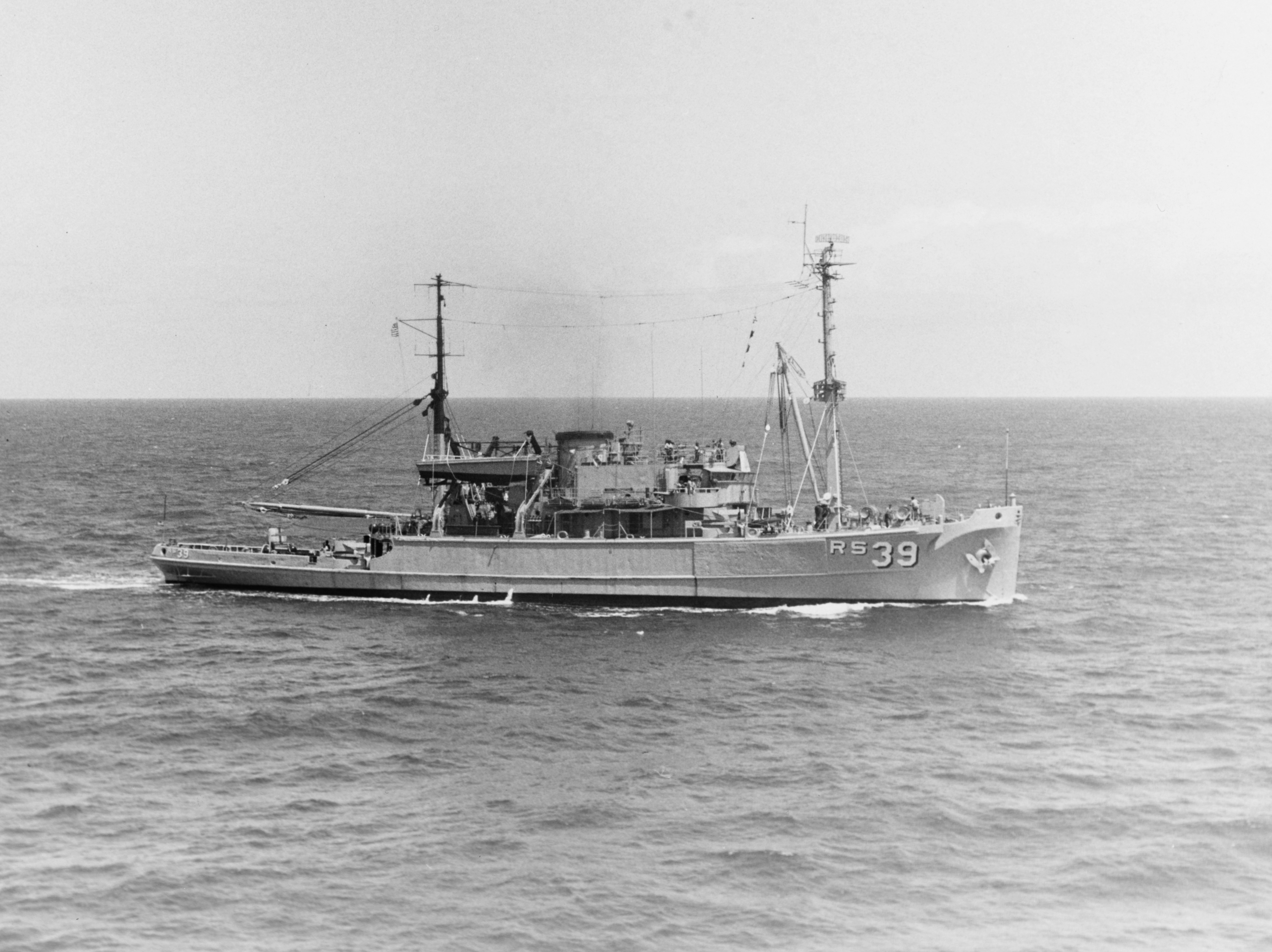 The U.S. Navy rescue and salvage ship USS Conserver (ARS-39) underway off Oahu, Hawaii (USA), on 26 April 1967.